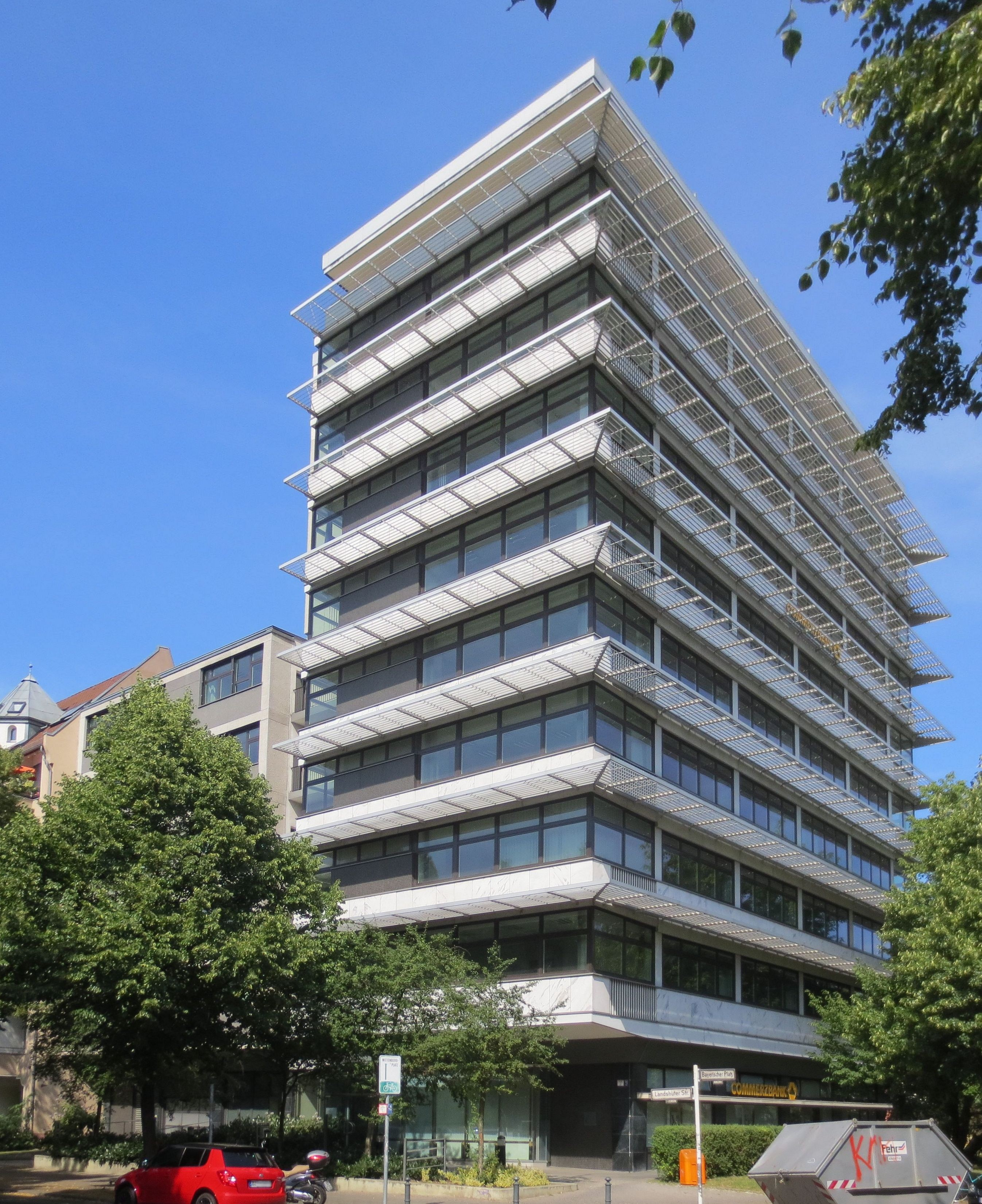 Office building at Bayerischer Platz No. 1 in Berlin-Schöneberg. The building was constructed from 1958 to 1960 to a design by Helmut Ollk. It has been designated as a cultural heritage monument.